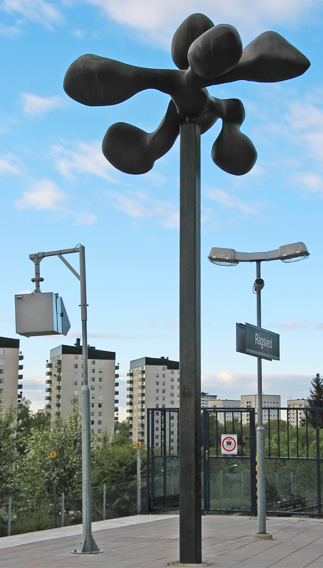 Fågel Grön, bronze sculpture by Björn Selder (1940–1999) at Rågsved Metro station in Stockholm, Sweden